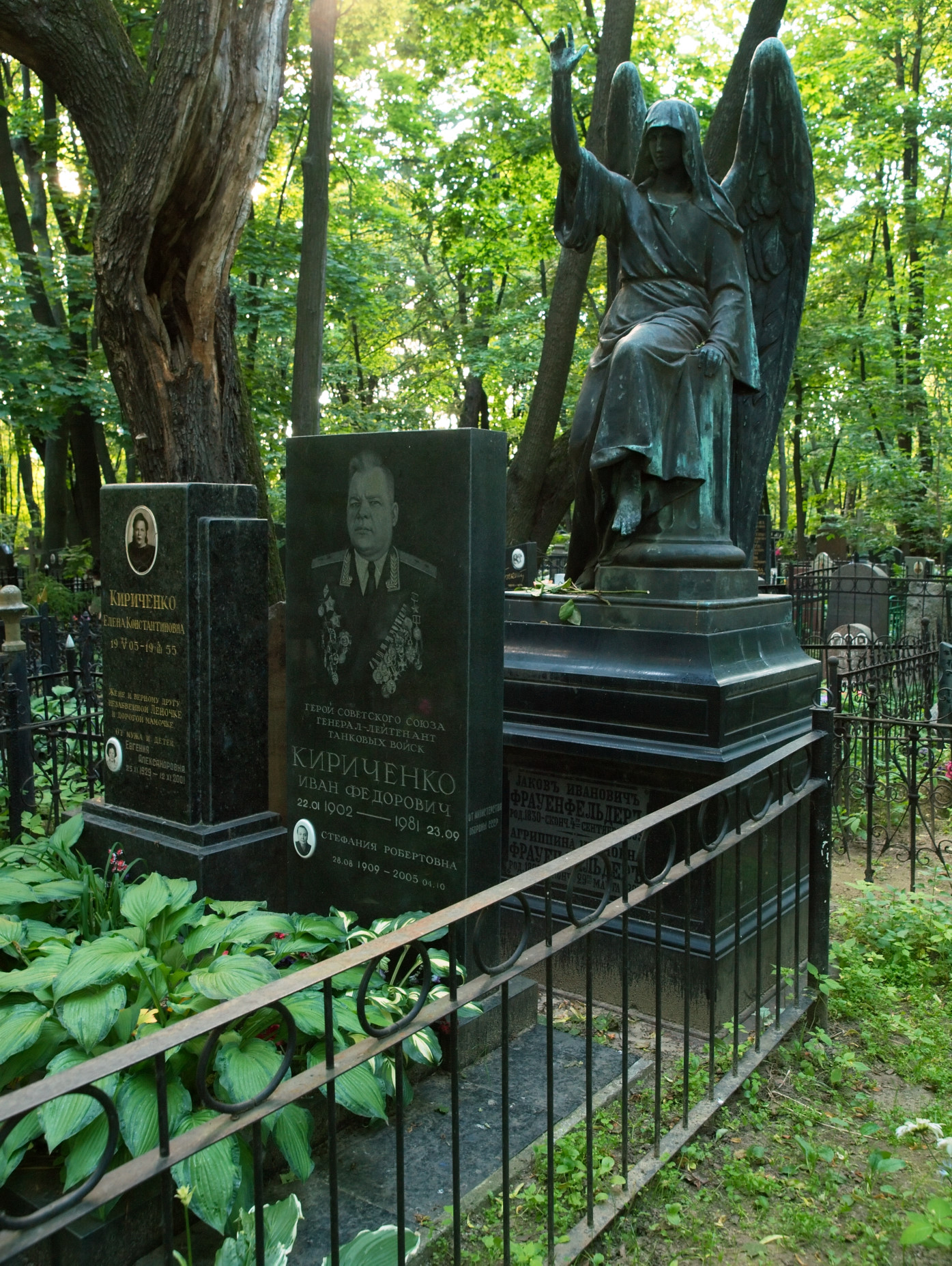 Graves, Vvedenskoye cemetery (Nalichnaya Street).